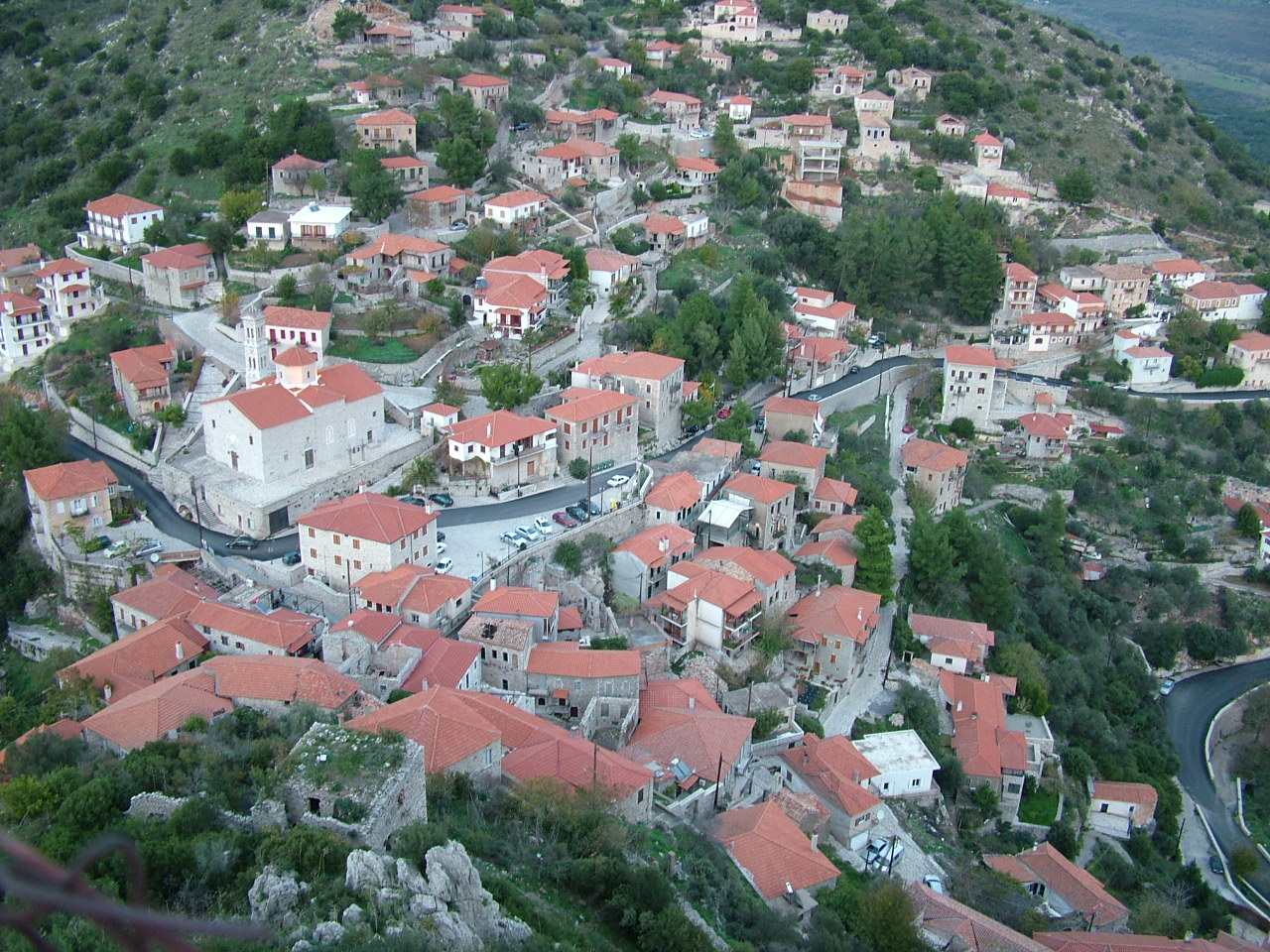 View of Karytaina, Greece, from the castle